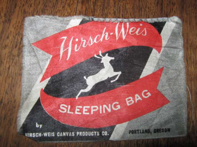 Tag for a sleeping bag manufactured by Hirsch-Weis Canvas Products, Portland, Oregon